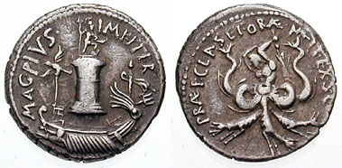 Sextus Pompeius. 42-40 BC. AR Denarius (3.50 gm). MAG PIVS IMP ITER, galley adorned with aquila, sceptre and trident before the Colonna Rhegina, decorated with a statue of Neptune/Poseidon PRAEF CLAS ET ORAE MARIT EX S C, the monster Scylla, her torso of dogs and fishes, wielding a rudder as a club. Crawford 511/4a; Sear, CRI 335; Sydenham 1348; RSC 2. On the reverse, the title of Sextus Pompeius, PRAEFECTUS CLASSIS ET ORAE MARITIMAE EX SENATUS CONSULTO, means "Commander of the fleet and of the coasts for decision of the Senate". It seems beyond doubt that this coin marks Pompey's "victory" over Octavian's fleet in 42 BC near Scyllaeum in the difficult waters of the Strait of Messina. Therefore the dates given for this issue in RSC and Crawford (42-40 BC) are probably right, though a second and similar disaster, which was mainly due to an unfavorable wind that drove Octavian's ships onto the rocks, happened off Rhegion in 38 BC.